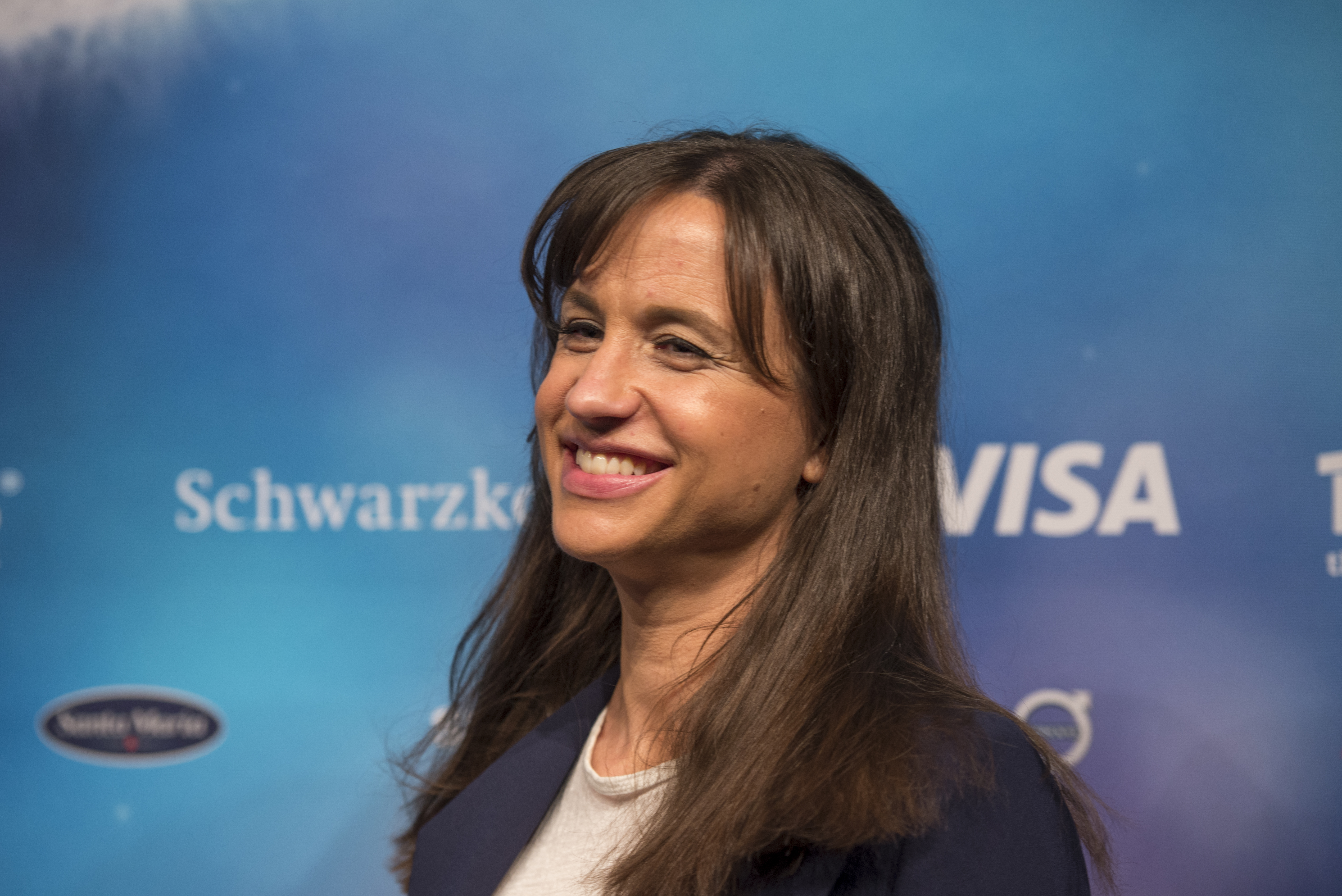 Petra Mede at a press conference during the Eurovision Song Contest 2016 in Stockholm. (Help translate this text)